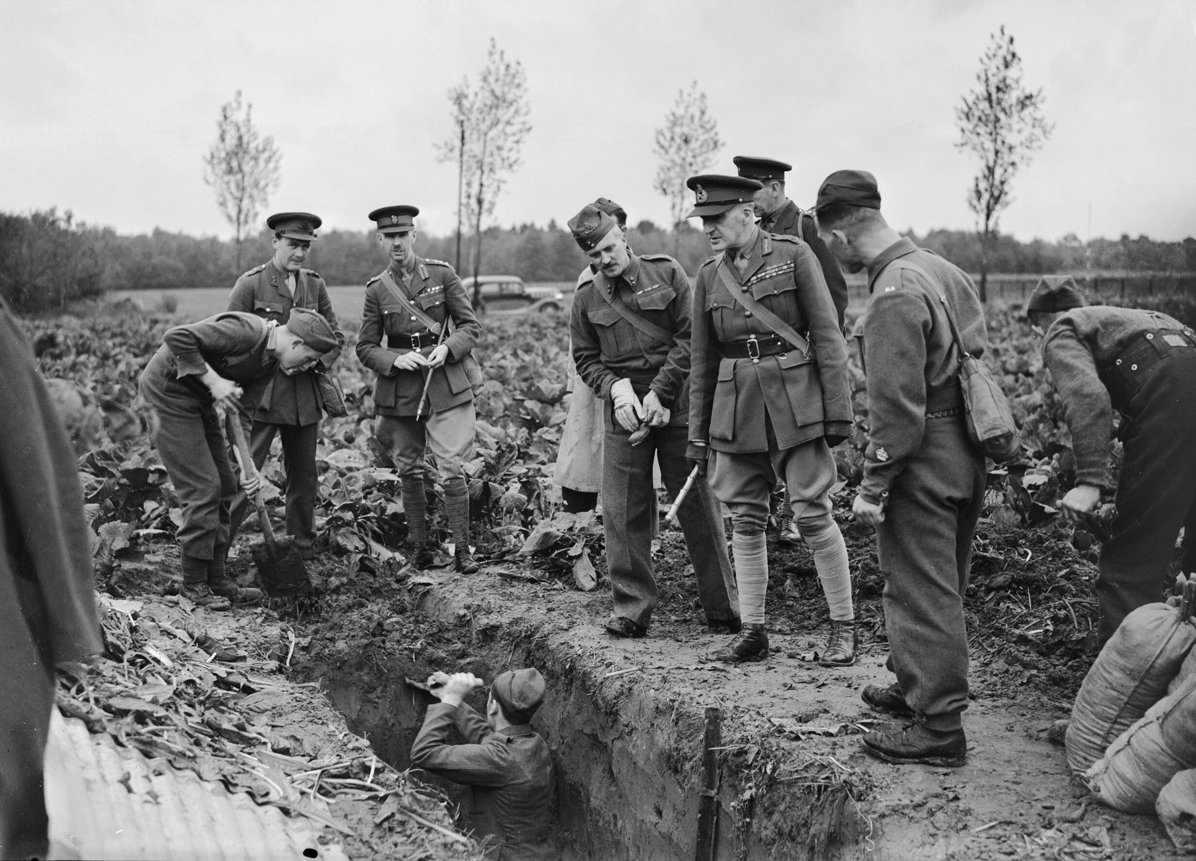 British Generals 1939-1945 Field Marshal Sir John Greer Dill (1881 - 1944): General Sir John Dill, Commanding 1st Corps BEF, inspecting soldiers digging trenches at Flines in France.